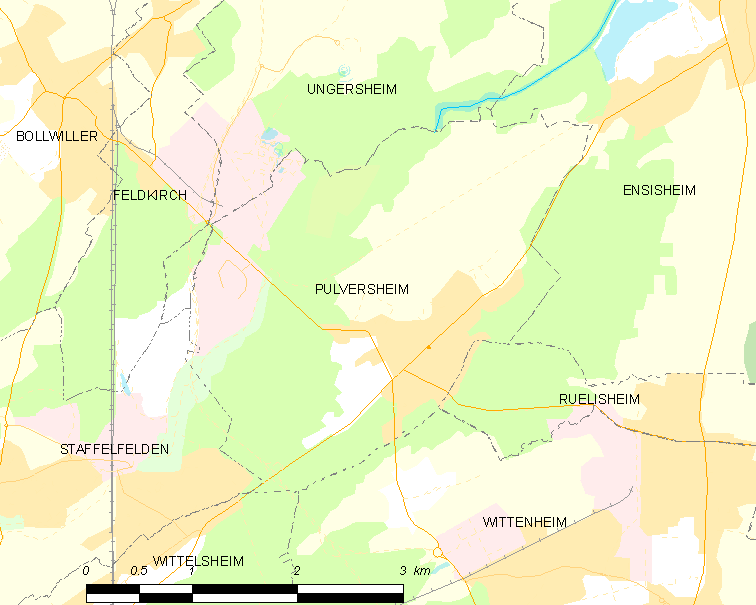 Map of French municipality